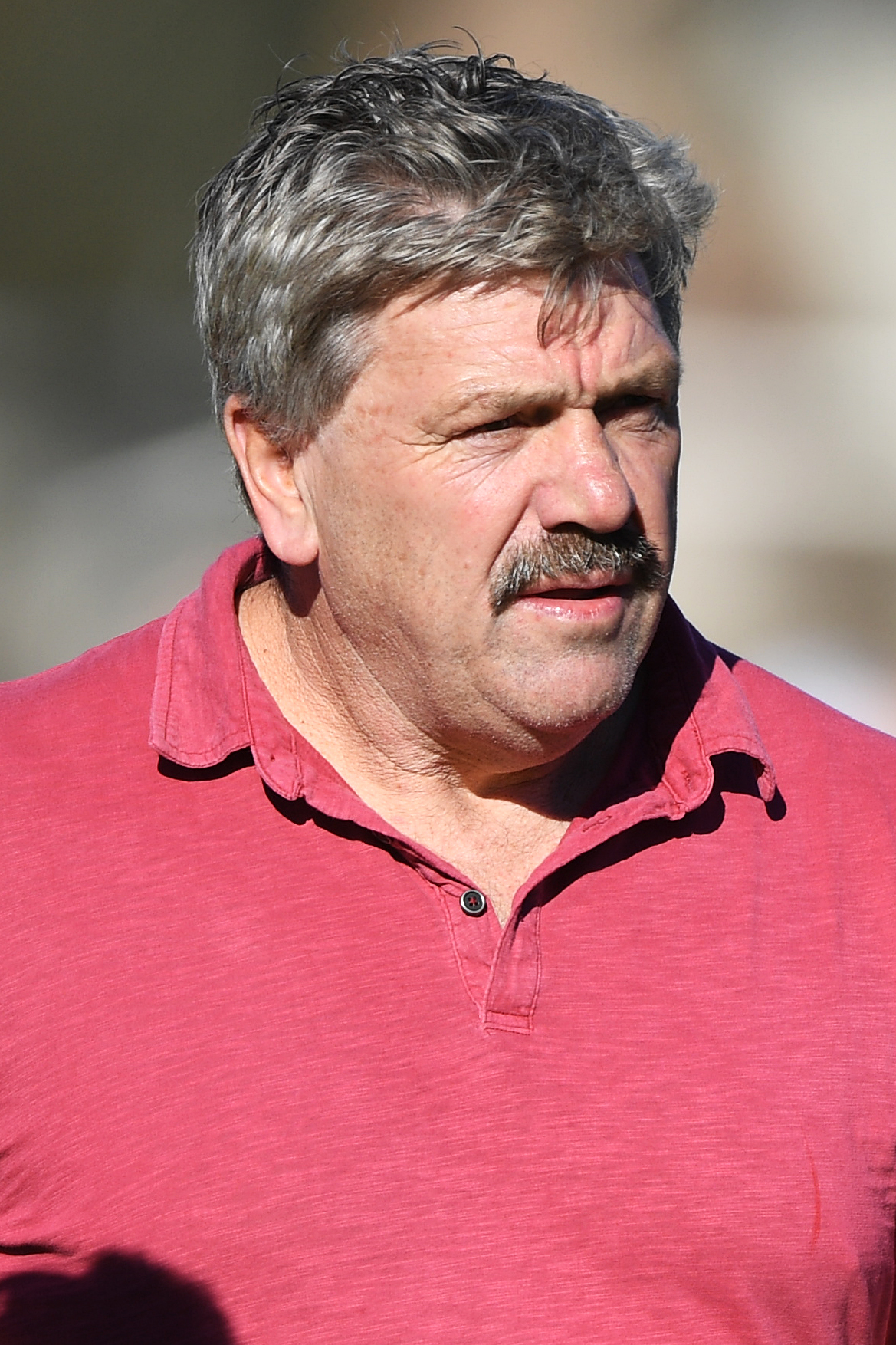 Brian Taylor during Melbourne training at Traeger Park on Saturday, 20 July 2019 in Alice Springs, Northern Territory.